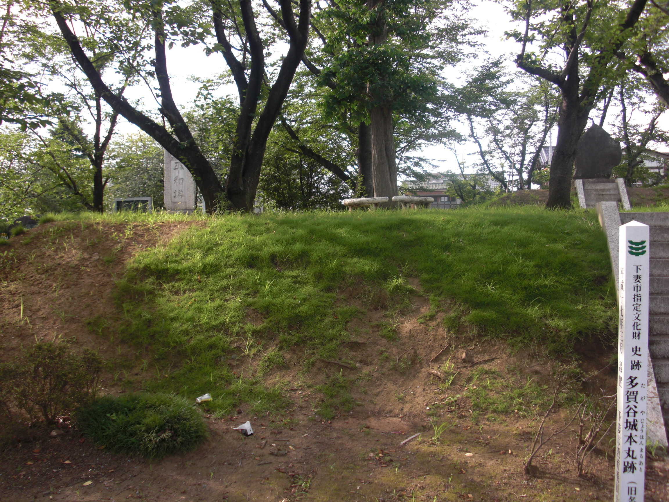 This is the Tagaya castle site in Shimotsuma, Ibaraki, Japan.